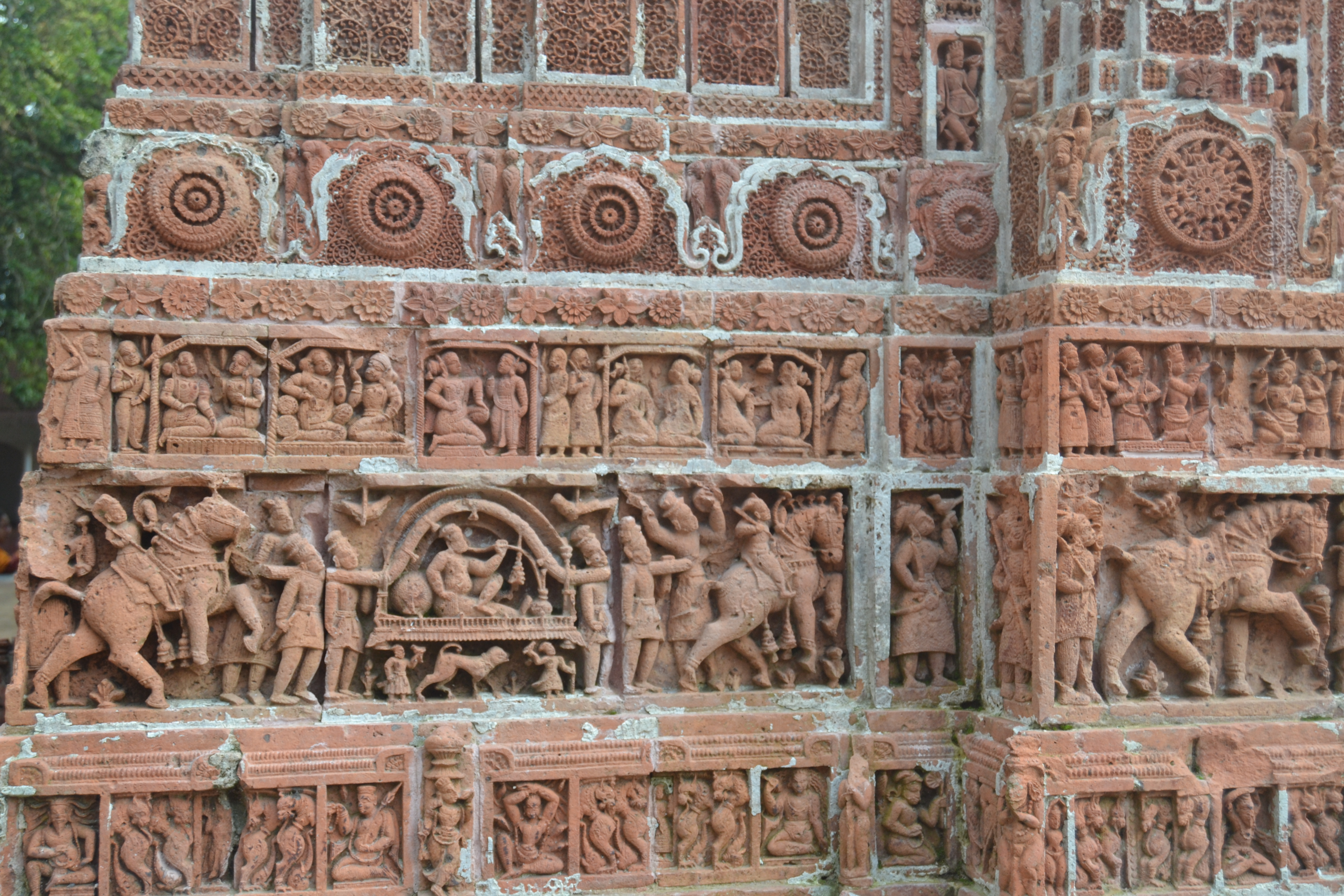 Kantanagar Temple, Kaharole Upazila, Dinajpur